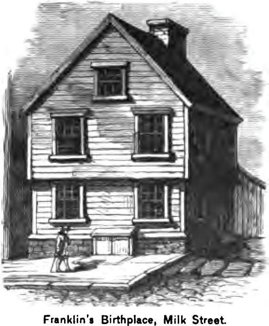 Etching of Benjamin Franklin's birthplace on Milk Street, Boston